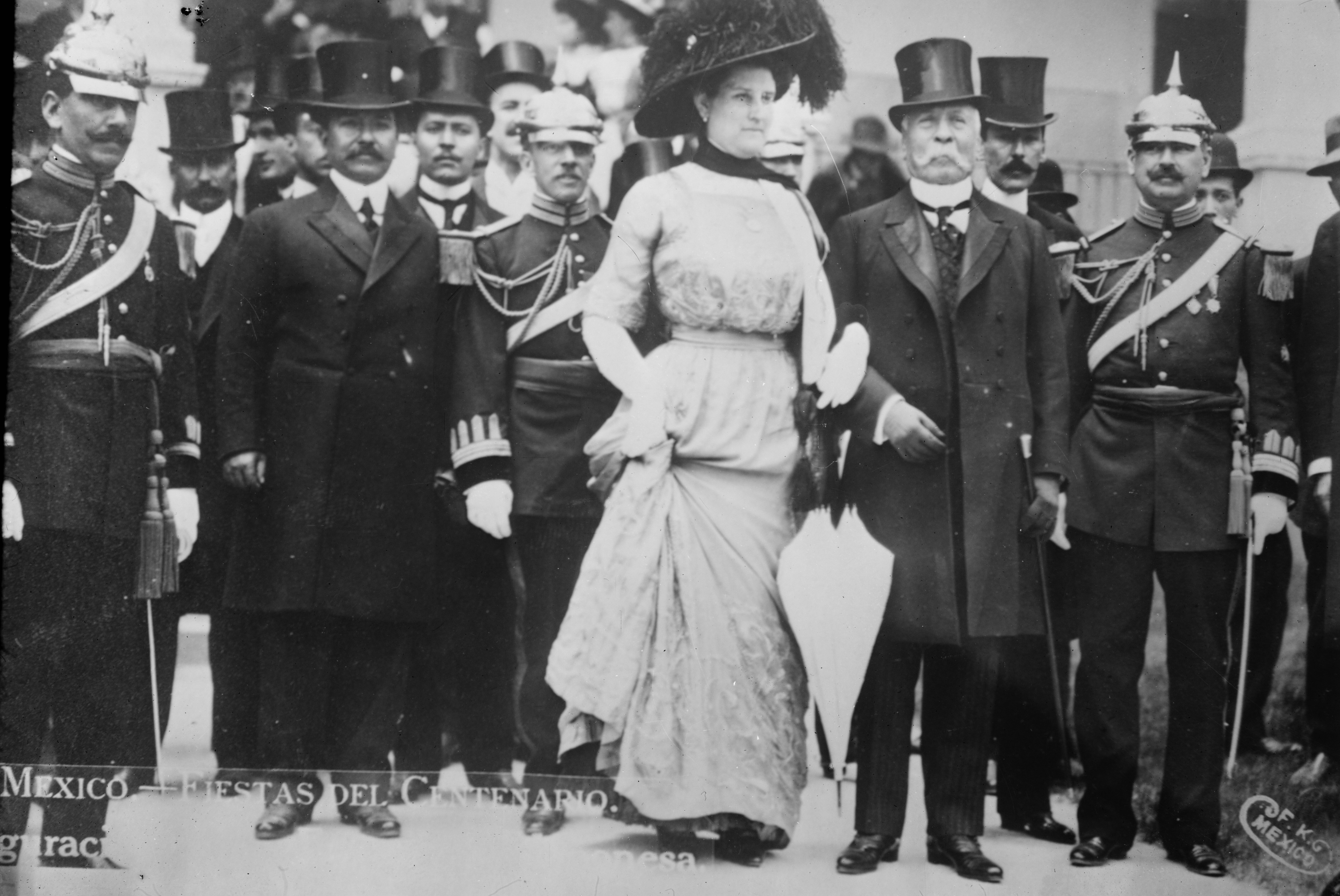 Mexican president Porfirio Díaz with other members of his ruling government